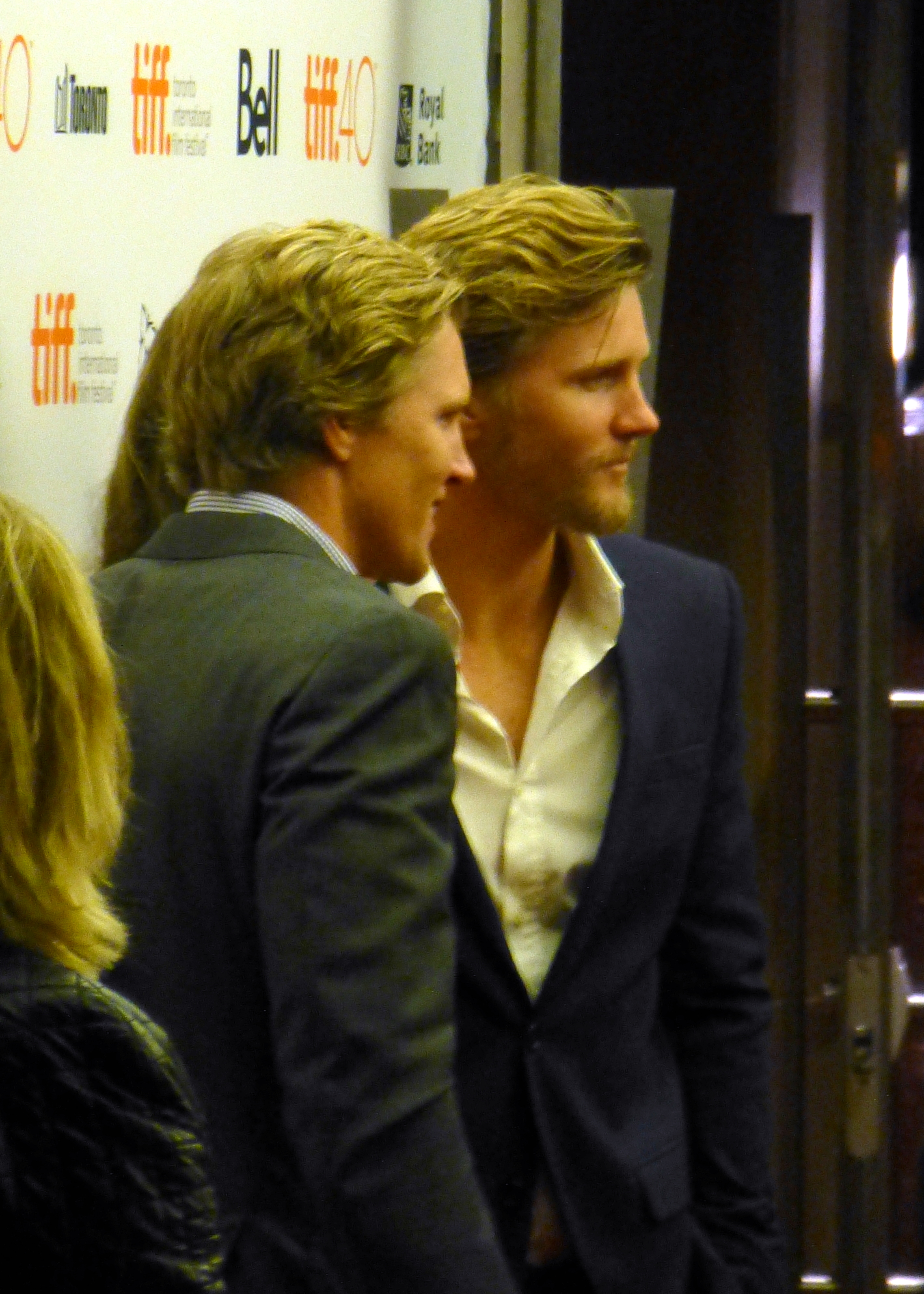 Producers Trent Luckinbill and Thad Luckinbill at the premiere of Sicario, 2015 Toronto Film Festival